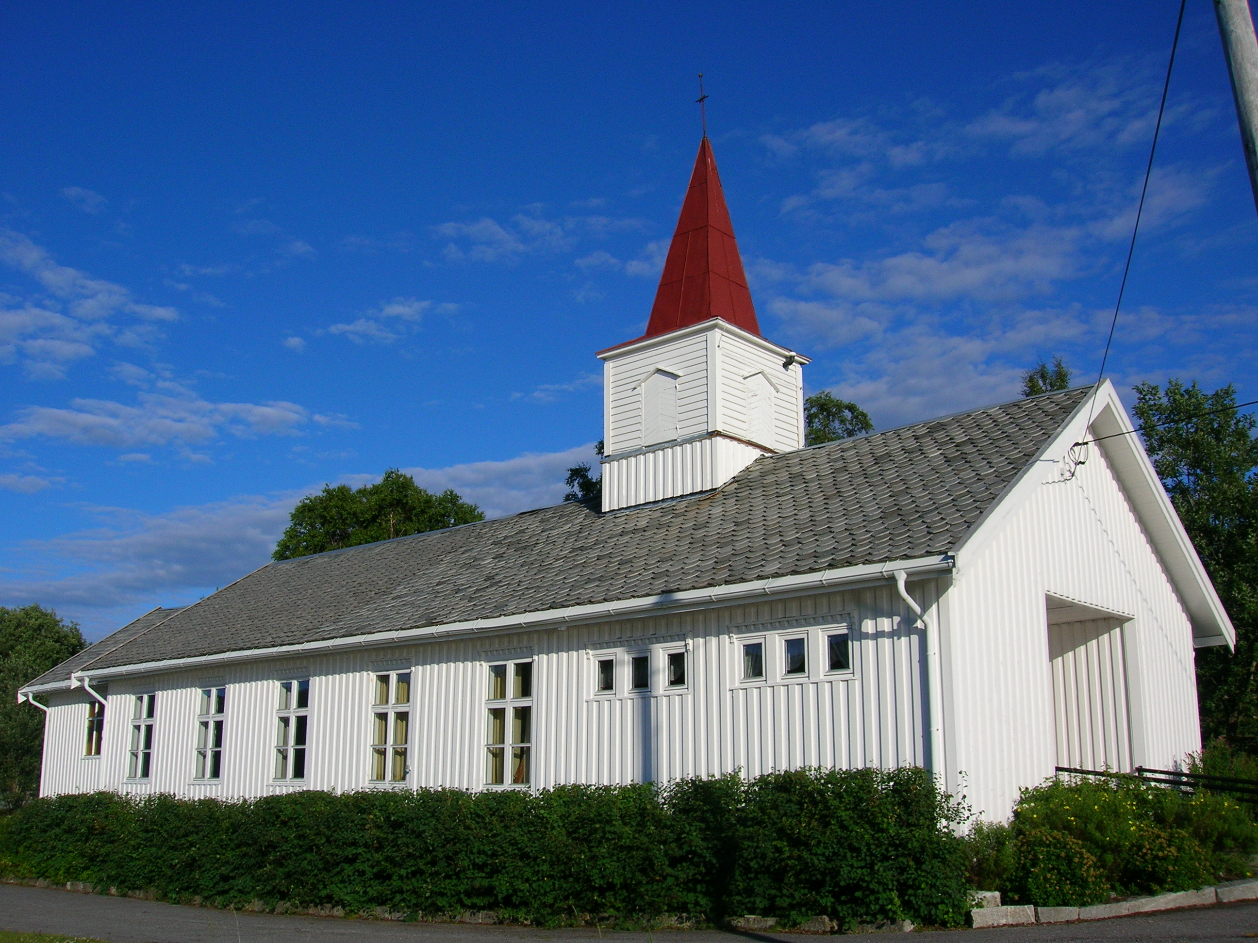 Sjona church in the municipality of Rana, county of Nordland, Norway. Photo July 14, 2007 with a Nikon Coolpix 5600 5,1 Megapixel camera.